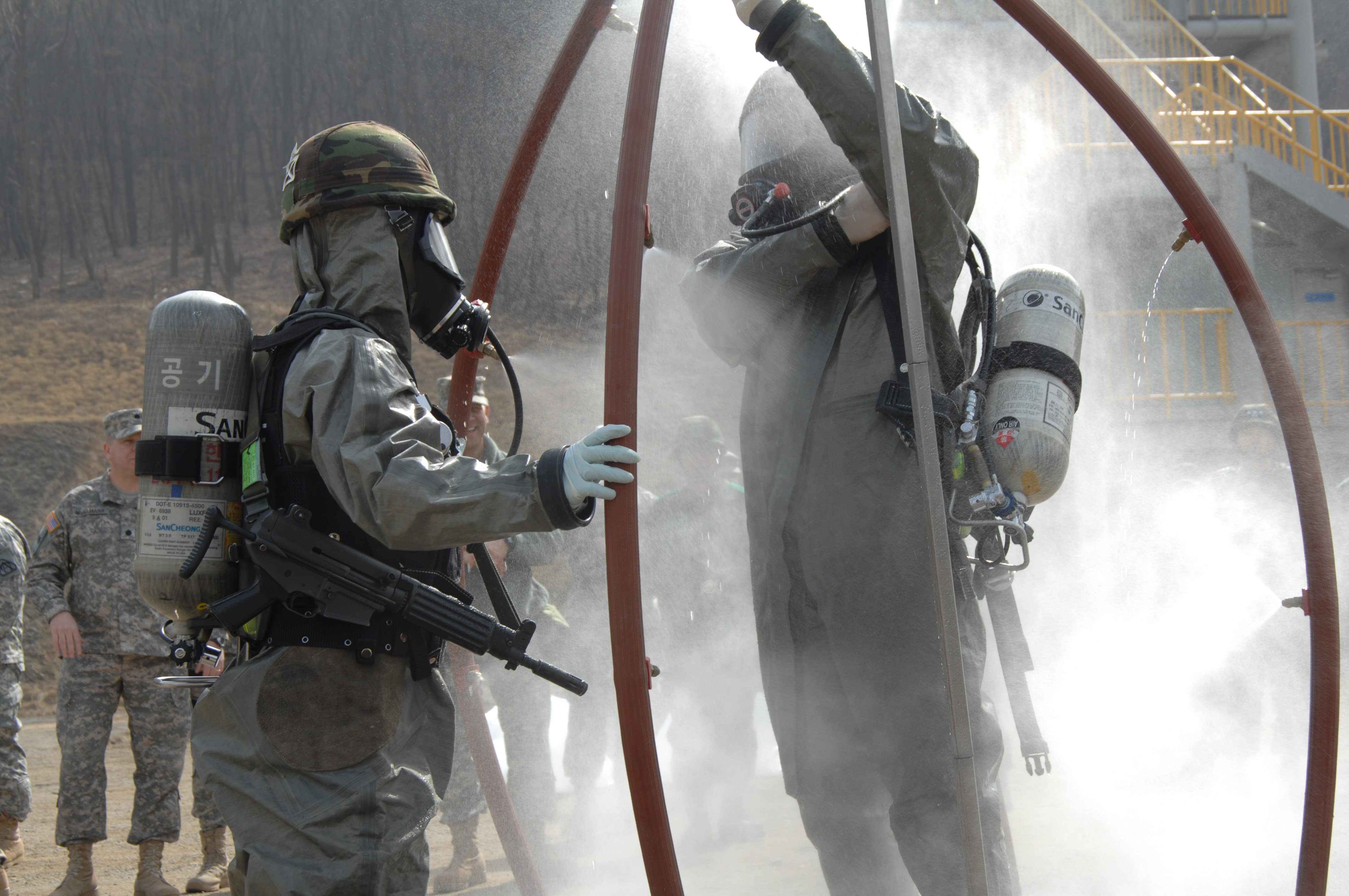 South Korean soldiers with Chemical Special Forces demonstrate decontamination procedures at Headquarters, Republic of Korea Armed Forces, Chemical, Biological and Radiological Defense Command in South Korea March 17, 2009. U.S. Soldiers from the 20th Support Command out of Aberdeen Proving Grounds, Md., and South Korean soldiers are conducting an annual exercise to enhance their interoperability. VIRIN: 090317-A-1325M-010